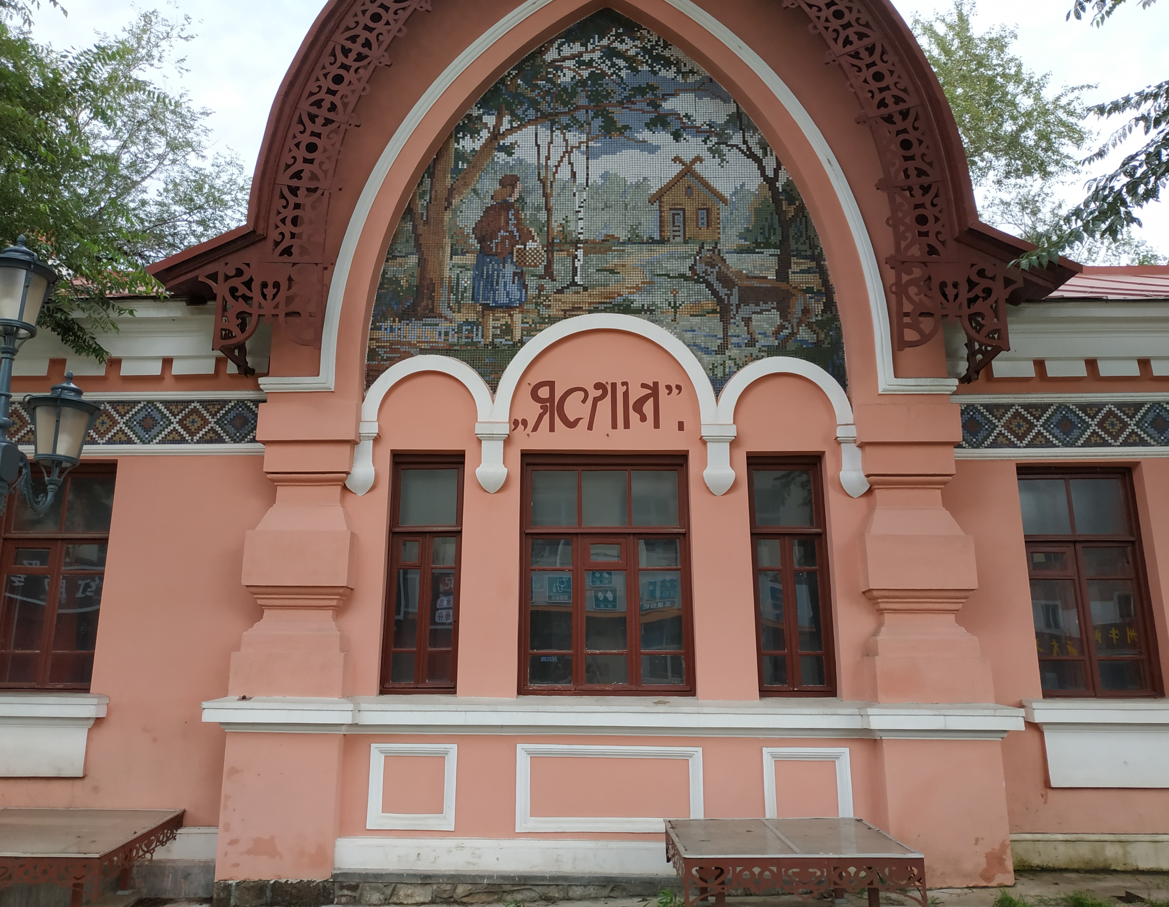 Orphanage affiliated to Church of the Theotokos of Iveron in Harbin.